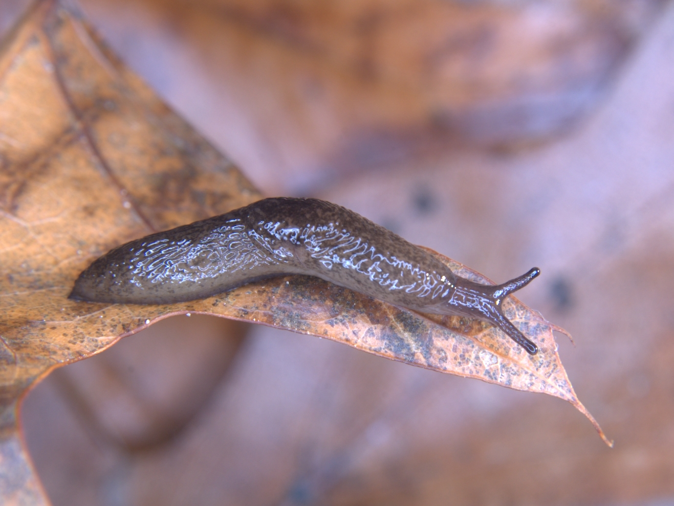 Deroceras panormitanum; Pneumostome in posterior half of mantle. DSC_4734